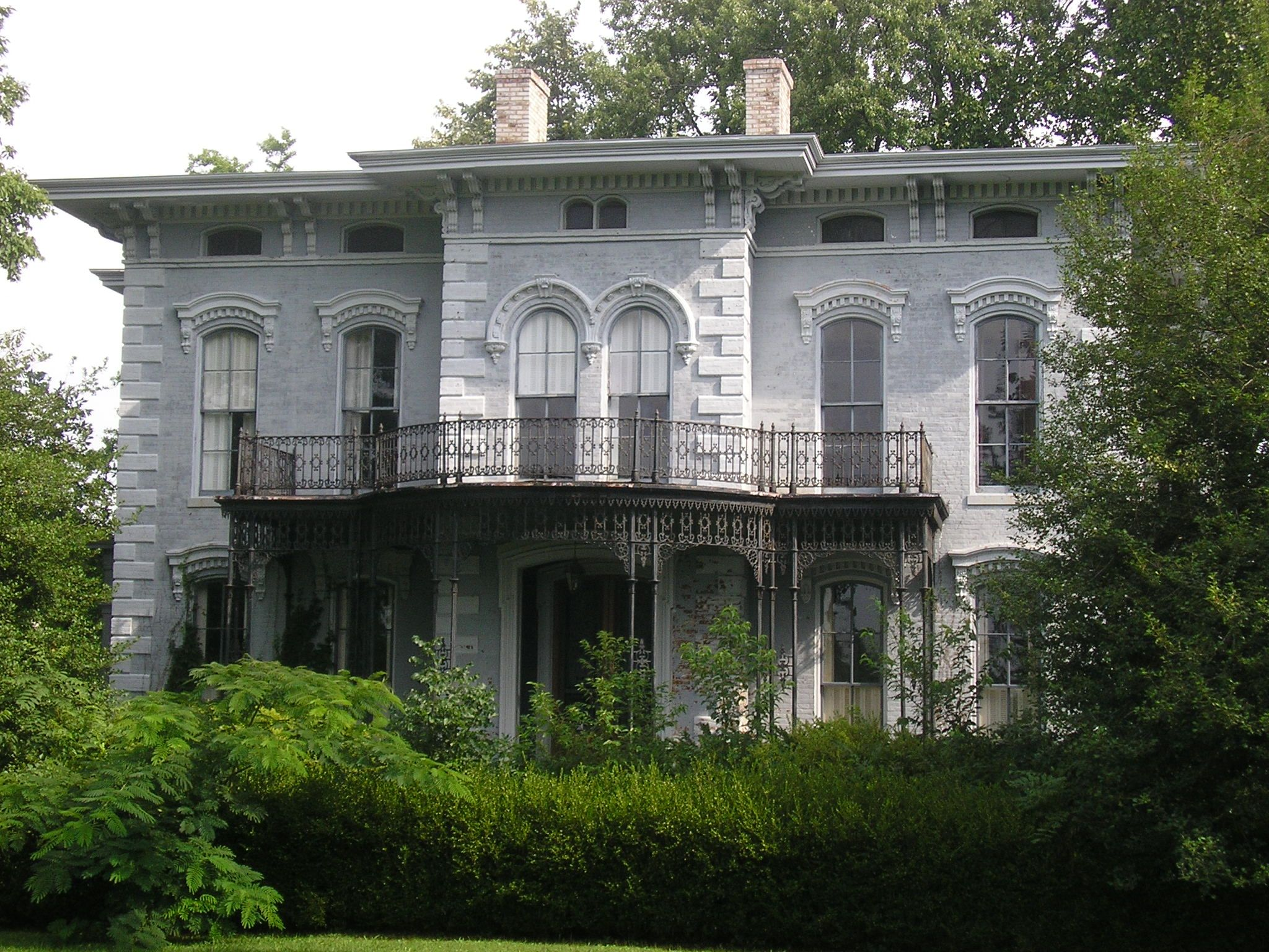 Bellevoir-Ormsby Village on the NRHP since December 5, 1980, on Whipps Mill Rd., Lyndon, Jefferson County, Kentucky